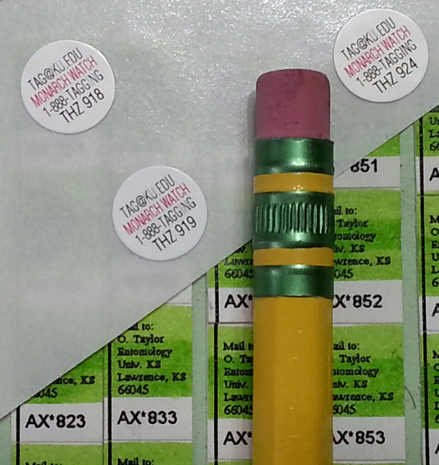 These are tags used to attach to the wings of monarch butterflies to study their migration. The circular tags are presently used (2014) and the green tags were used in the past by Monarch Watch - the University of Kansas